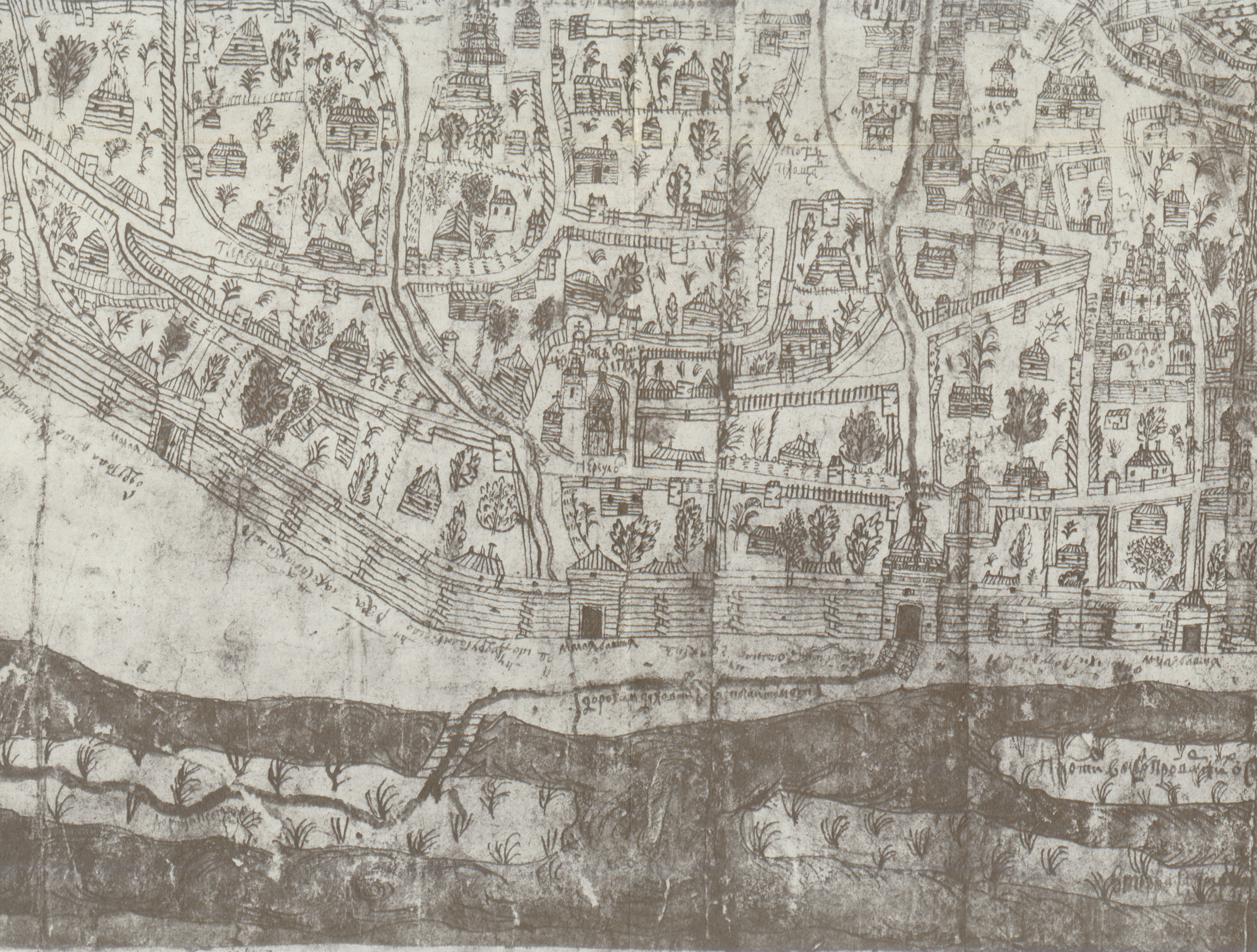 Фрагмент карты - плана Киева (1695), составленной подполковником Ушаковым по распоряжению Императора Петра I. Русло реки Почайна у Киева со стороны современной Почтовой площади. Песчаная коса разделяет Почайну и Днепр. Через Почайну на косу переброшен мост.